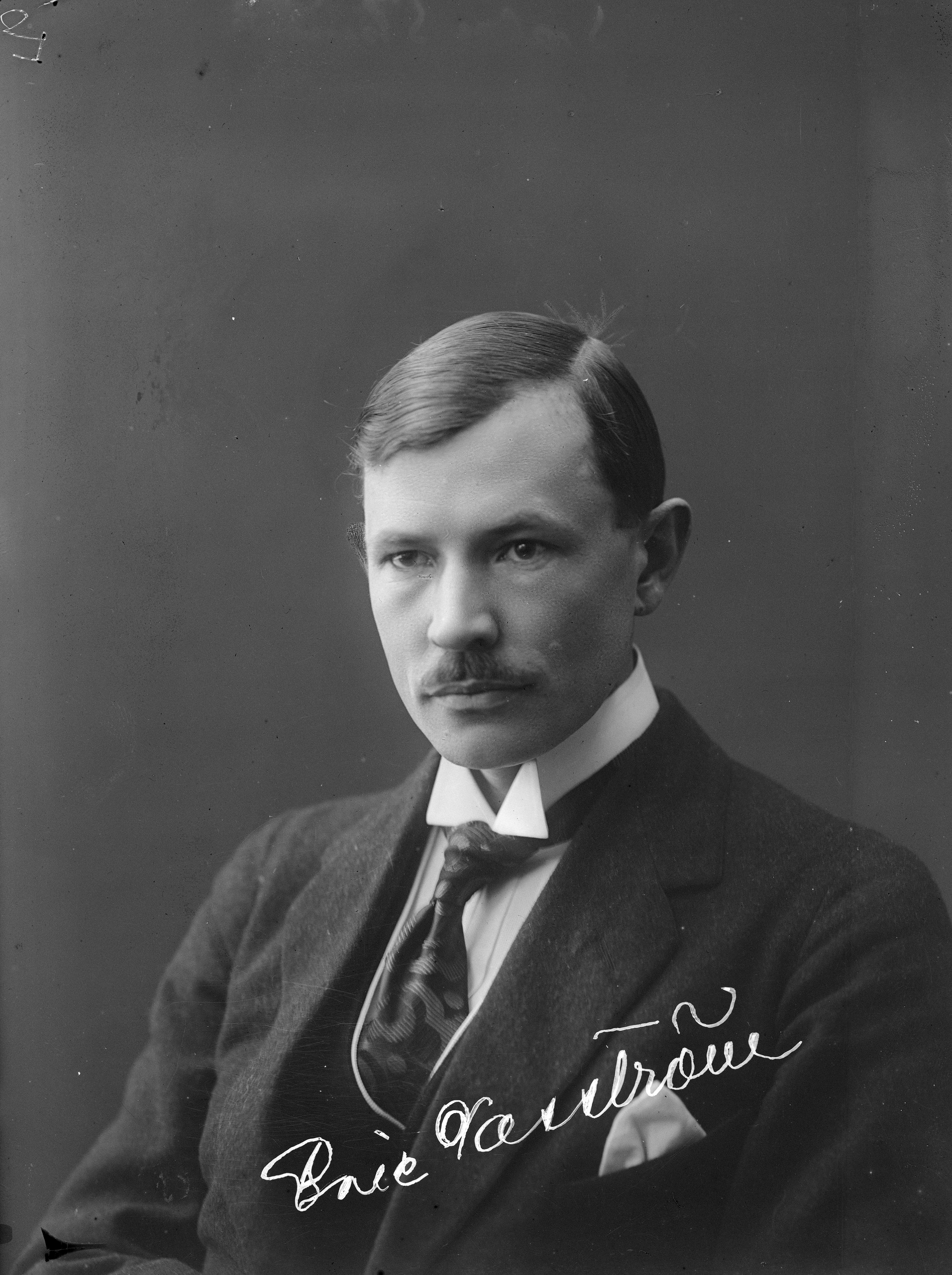 Photograph of the Finnish painter and caricaturist Eric Vasström (1887–1958).